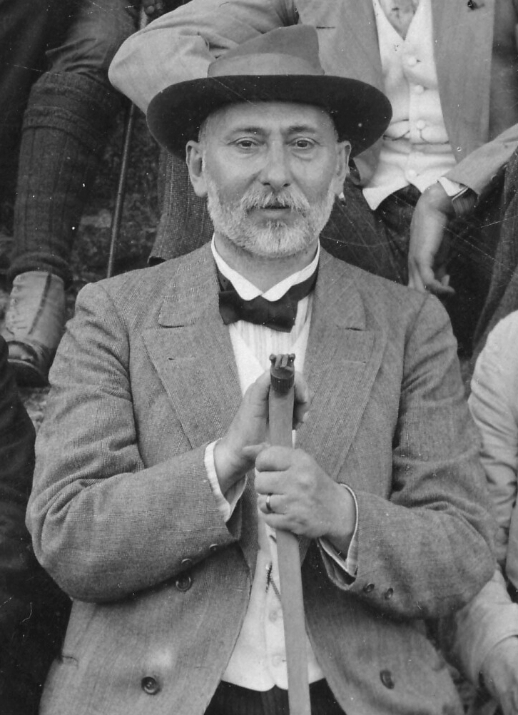 Historian and archaeologist Ekvtime Takaishvili (1863–1953) during the expedition to the Cross Church in Mtskheta.